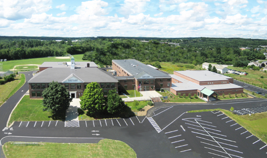 Bird's Eye View of GHHMS